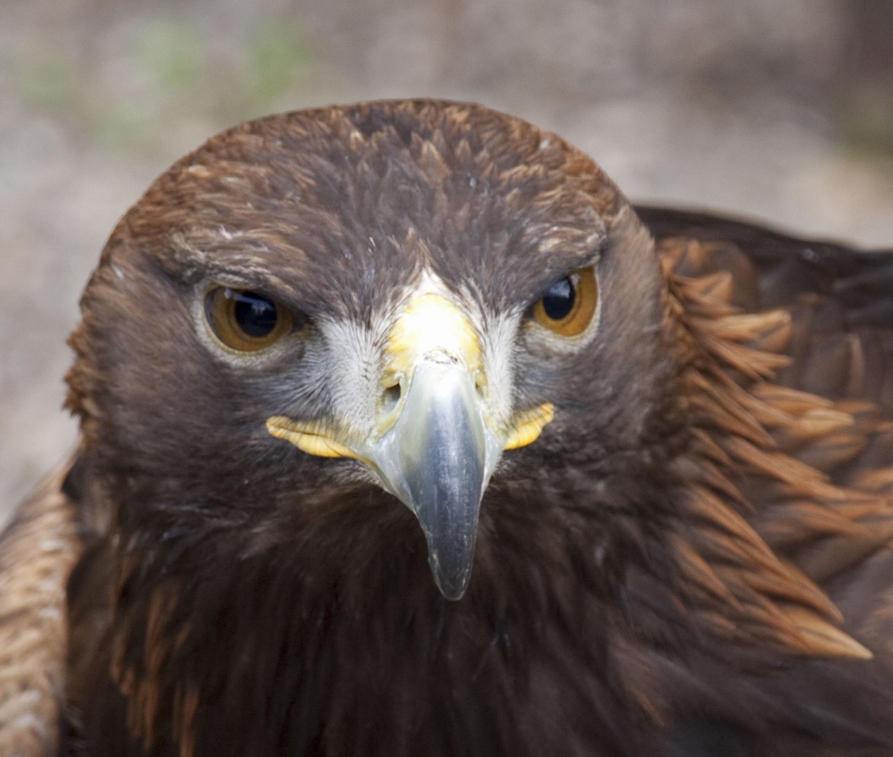 Young Bald Eagle Head 2